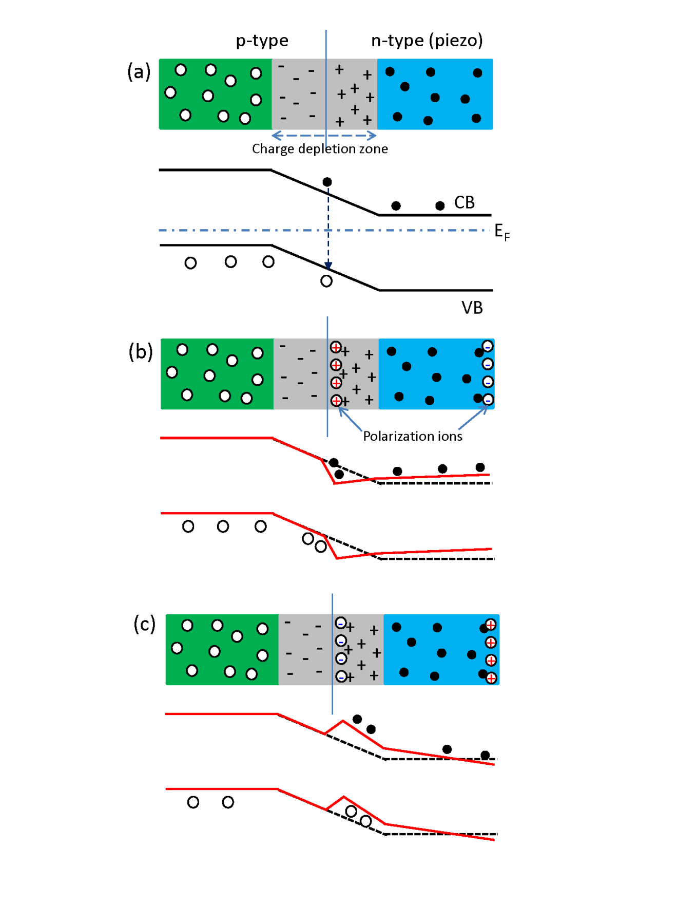 piezophototronics